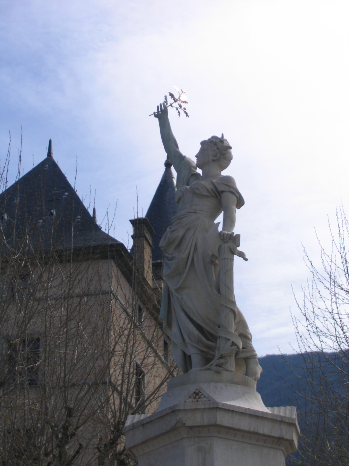 sculpture by Henri Ding at Vizille